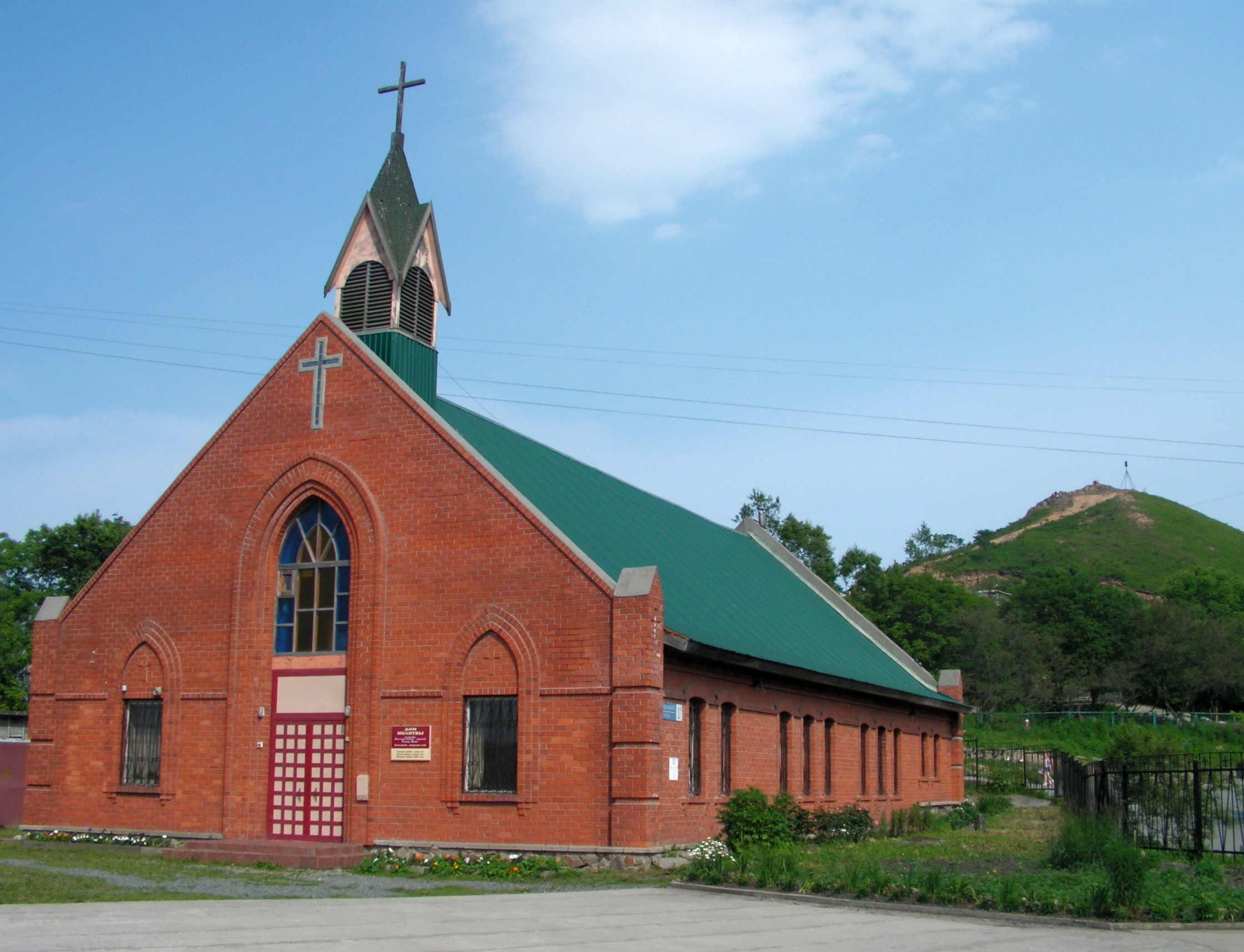 Baptist church in Vladivostok